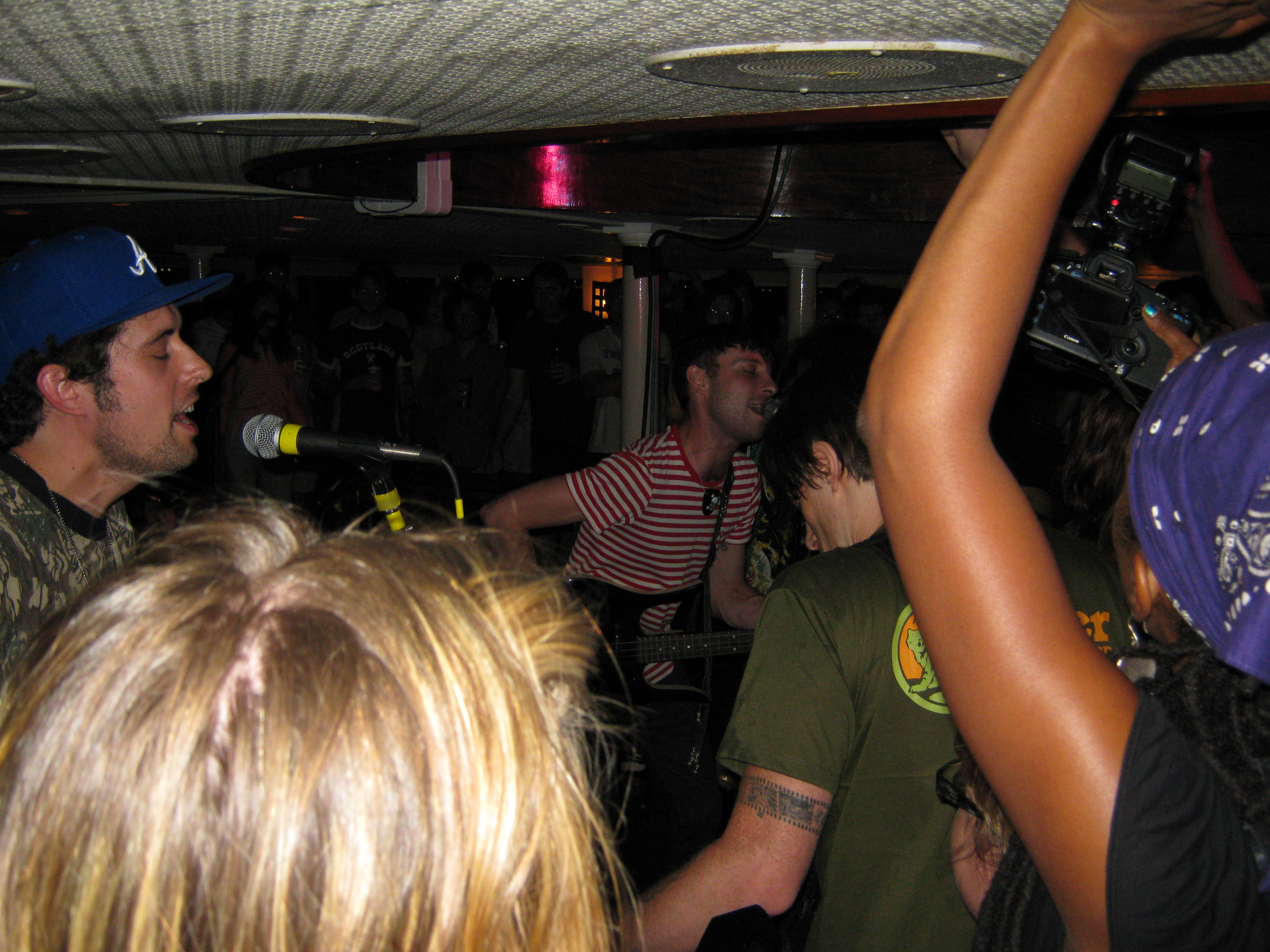 Black Lips on Rocks Off Cruise in New York City on August 2, 2010.